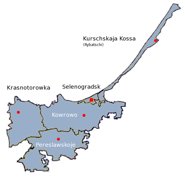 The administrational division of the Zelenogradsky District in German transcription